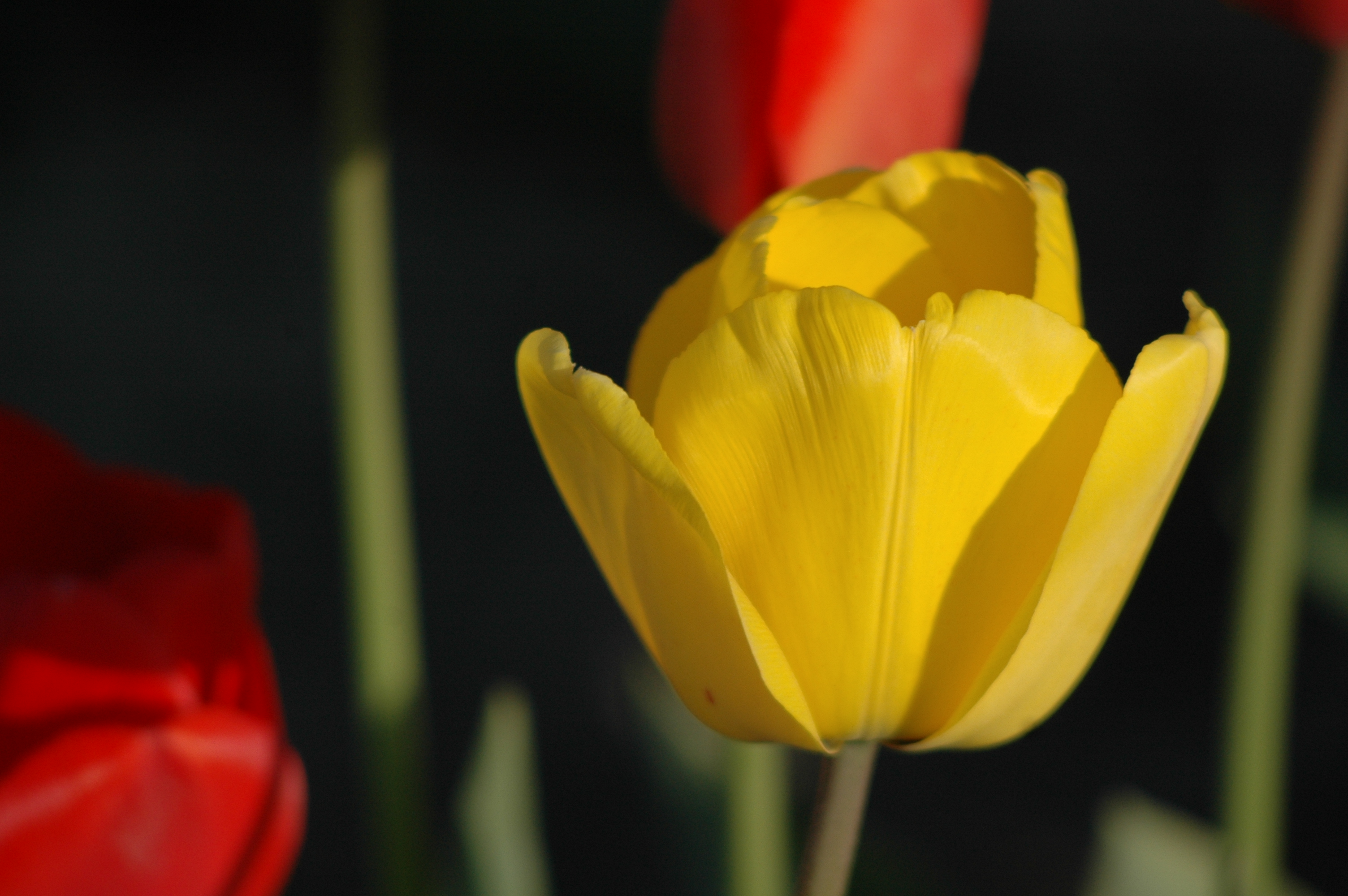 Skagit Valley Tulip Festival